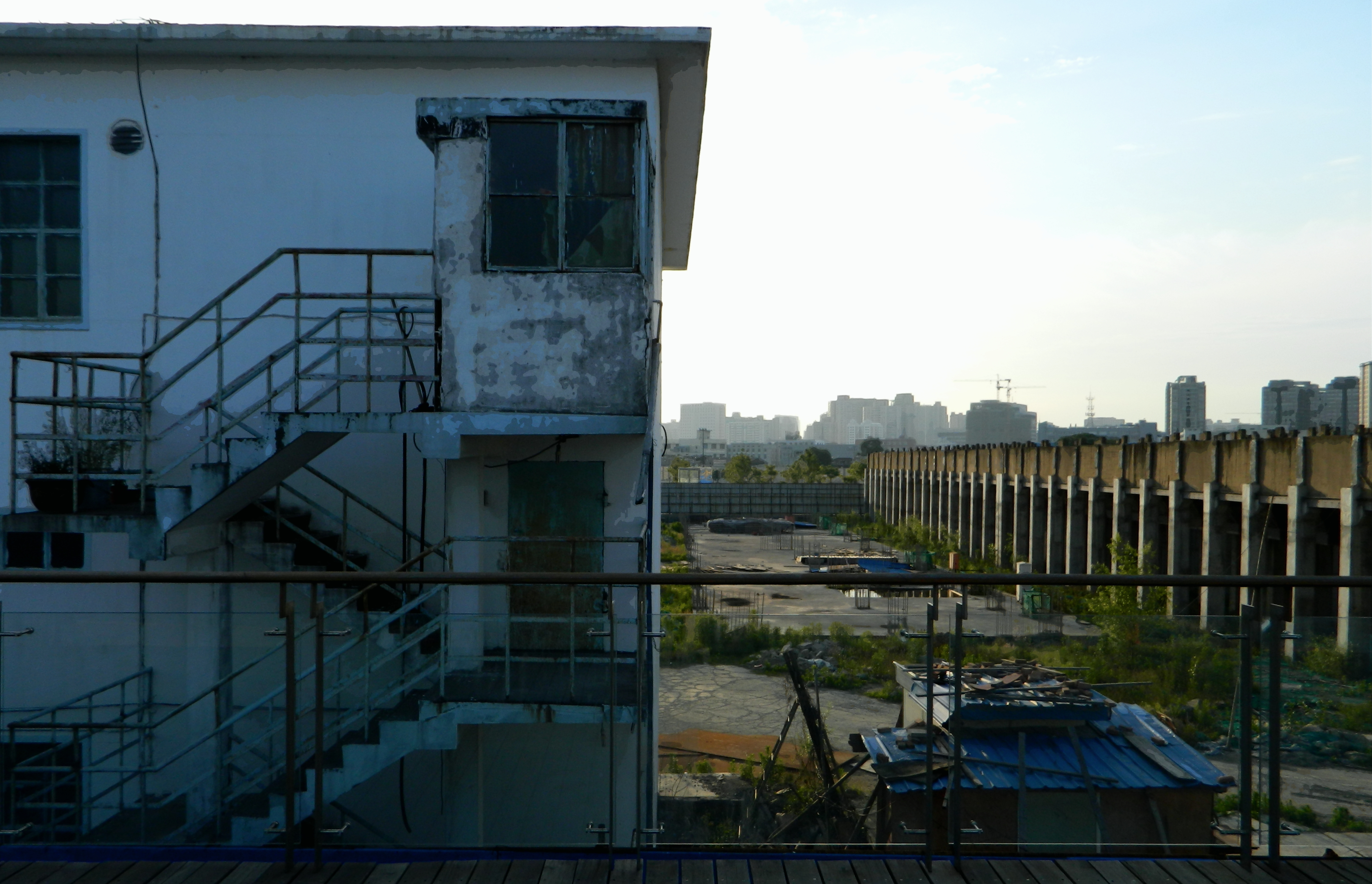 old industrial building at Xuhui waterfront